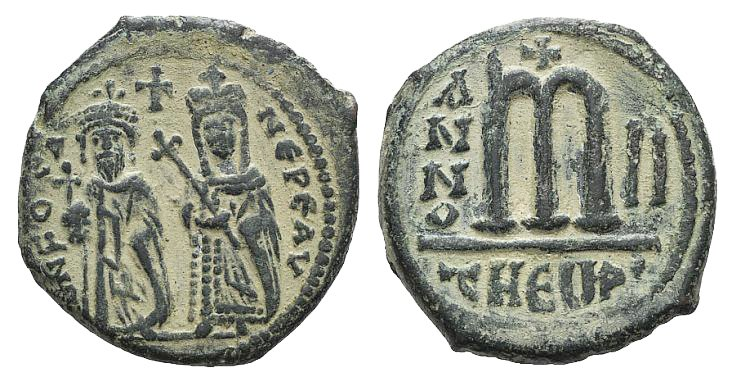 Phocas 40 Nummi. Theoupolis 603/4). Phocas holding globus cruciger and Leontia holding cruciform sceptre; Sear 671.